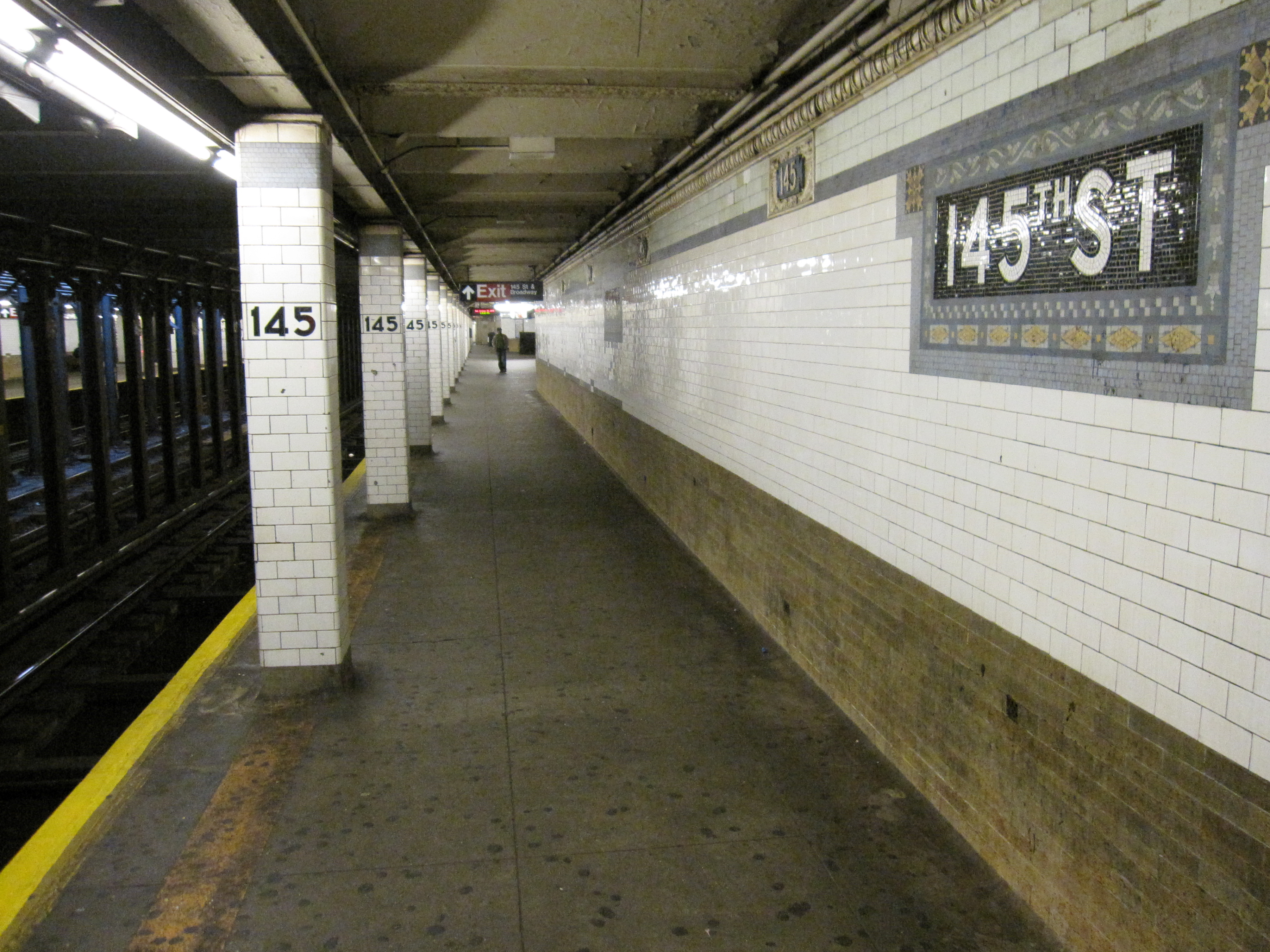 145th Street (IRT Broadway – Seventh Avenue Line)